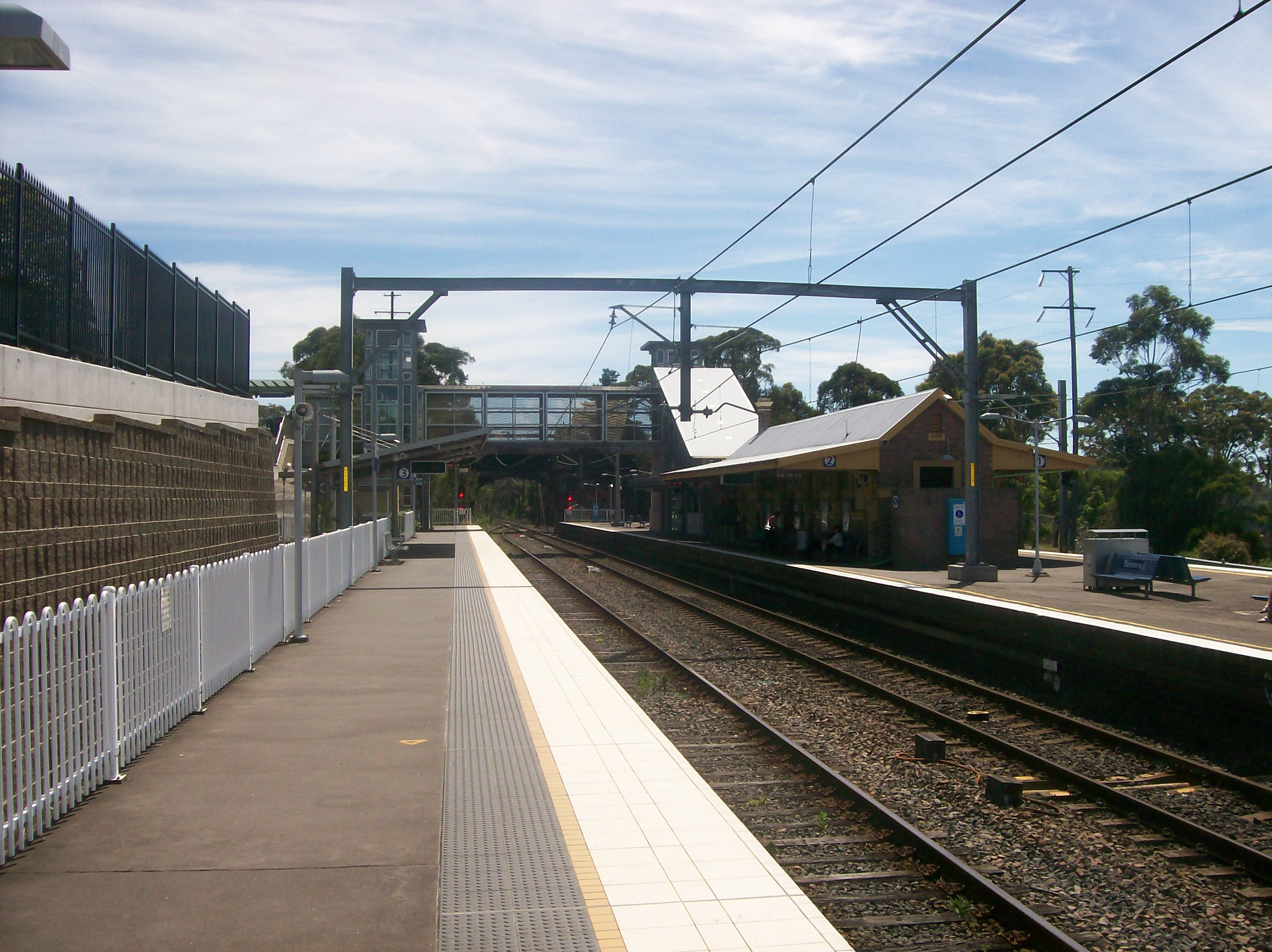 Berowra railway station